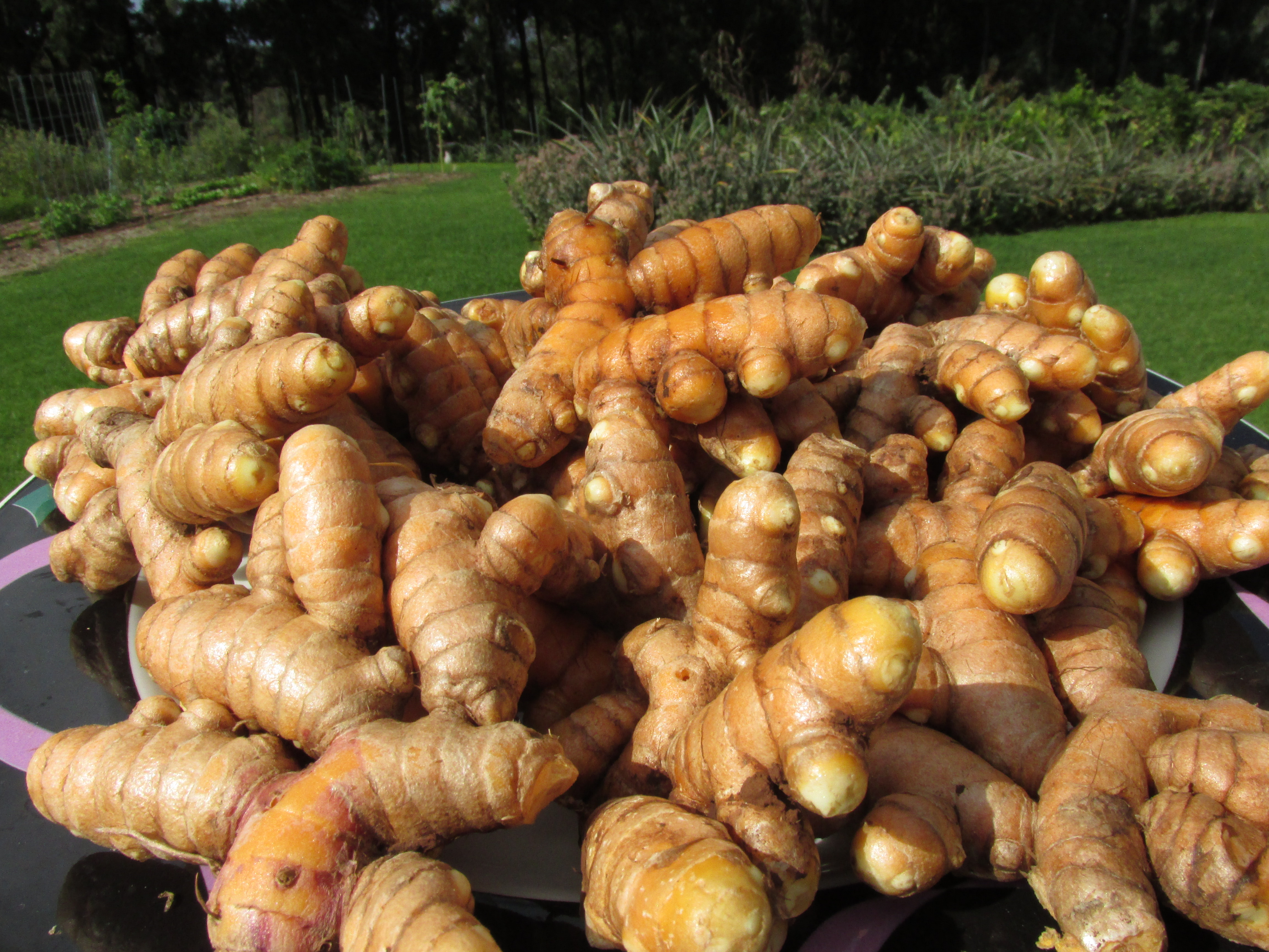 Curcuma longa (Turmeric, olena) Harvest at Hawea Pl Olinda, Maui, Hawaii. January 14, 2017 #170114-6480 Image Use Policy Also known as Curcuma domestica.